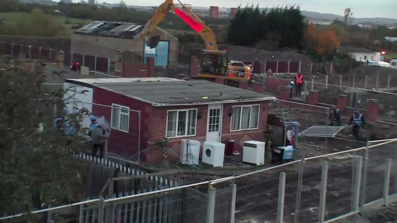 Demolition of house, Dale Farm 2011. Romani and Traveller groups have claimed racial discrimination as a factor in being denied settlement rights throughout UK Green Belt lands.